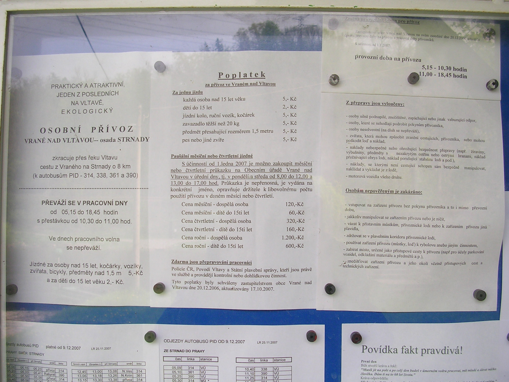 Vrané nad Vltavou, the Czech Republic. Informations about a ferry.